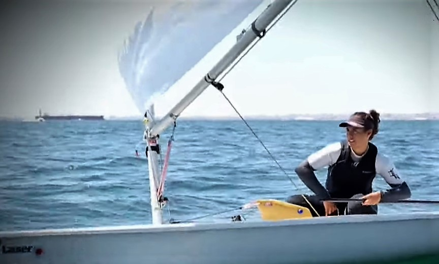 Turkish sailor Ecem Güzel in a photo interview with beIN Sports.